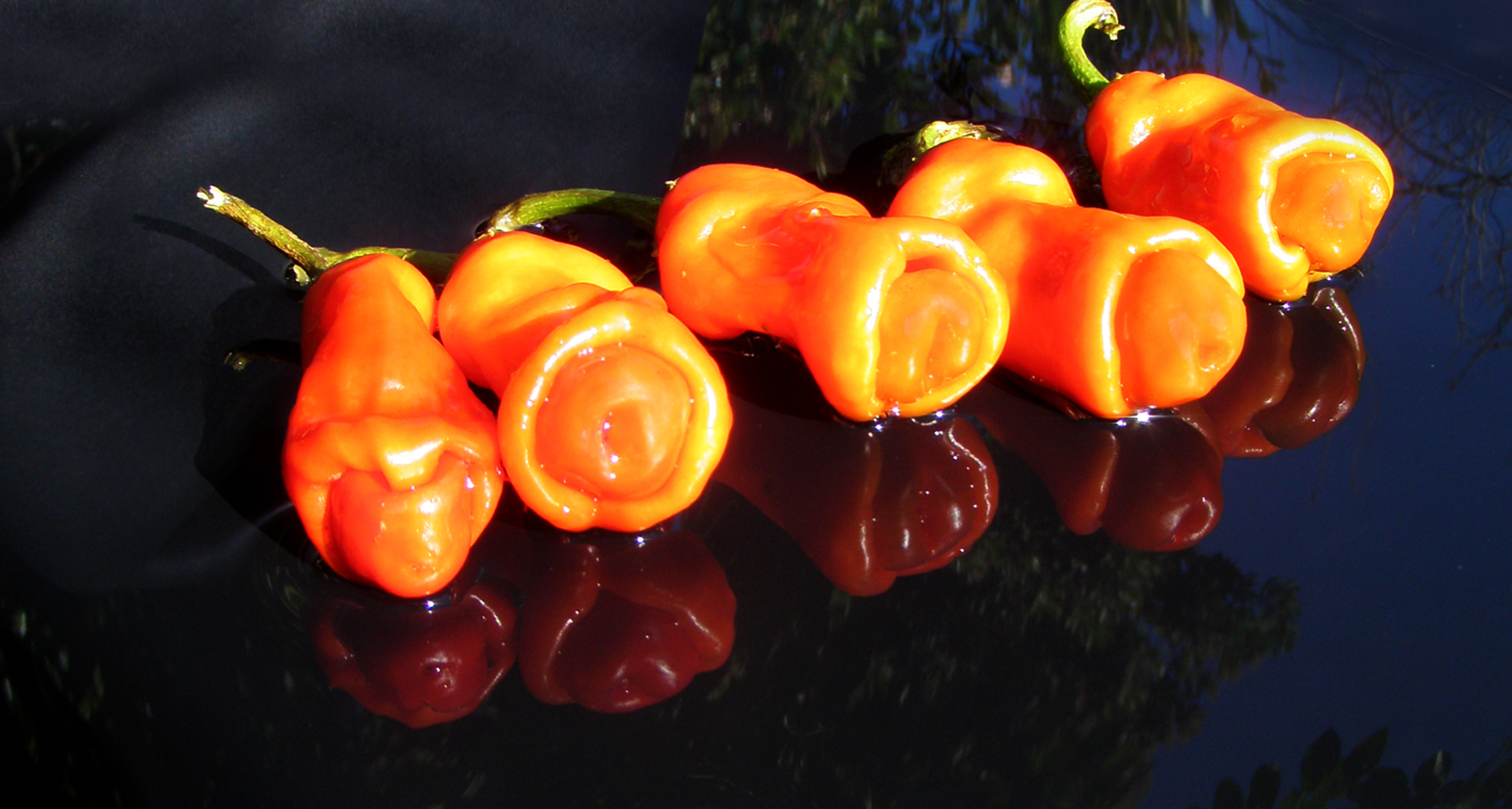 Peter pepper,Capsicum annuum var. annuum